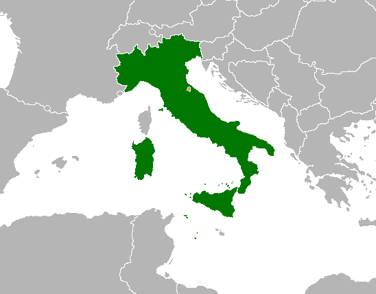 Bilateral maps created from location map for San Marino Originally created for English Wikipedia by User:Vardion.